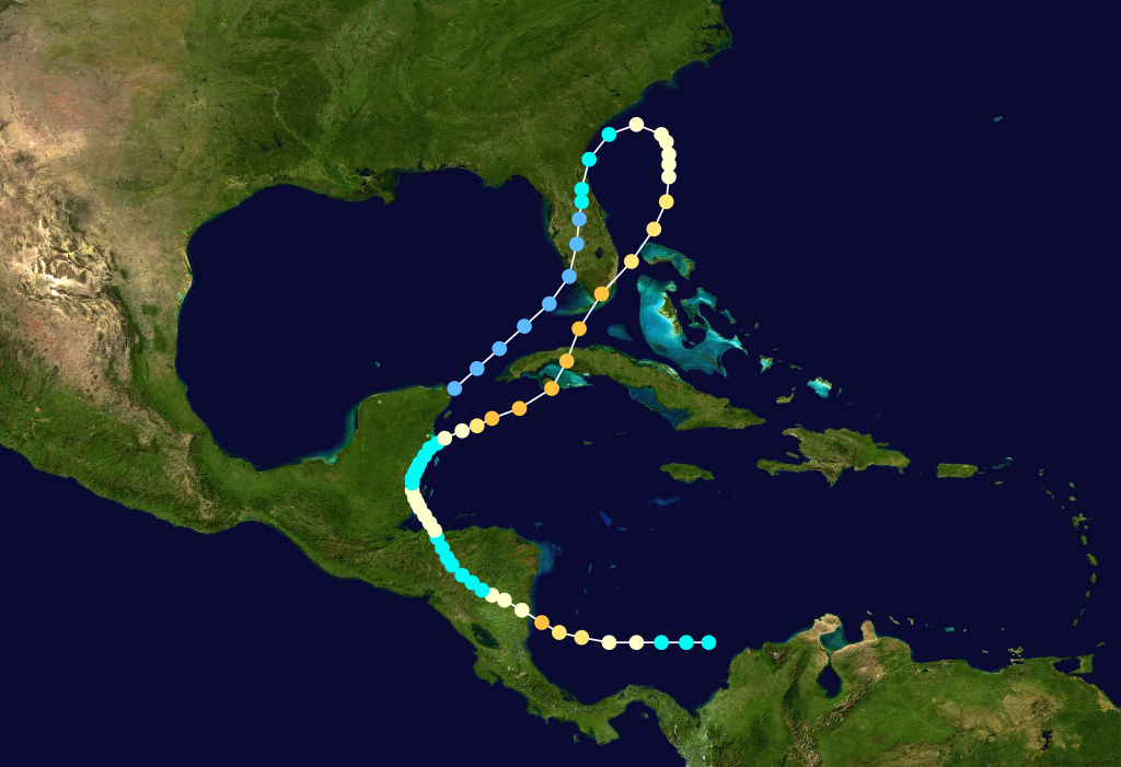 1906 Atlantic hurricane 8 track.png track. Uses the color scheme from the Saffir-Simpson Hurricane Scale.